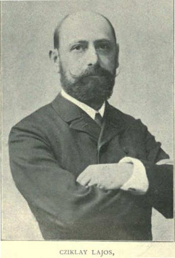 Portrait of Cziklay Lajos